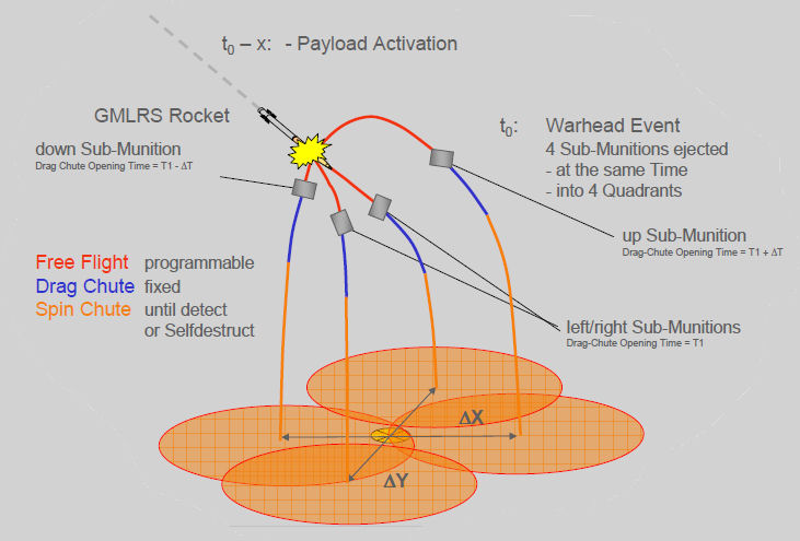 GMLRS effects on ground with SMArt 155 submunition